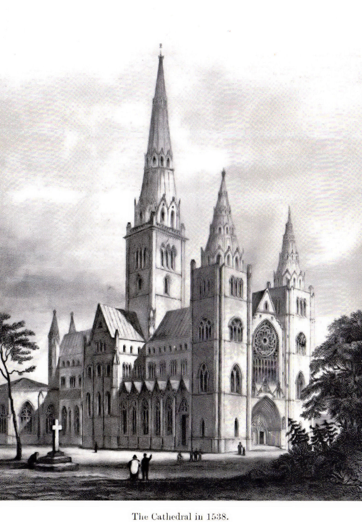 Copyright expired. Taken from book Elgin Past and Present by Herbert B. Mackintosh, Elgin, 1914.